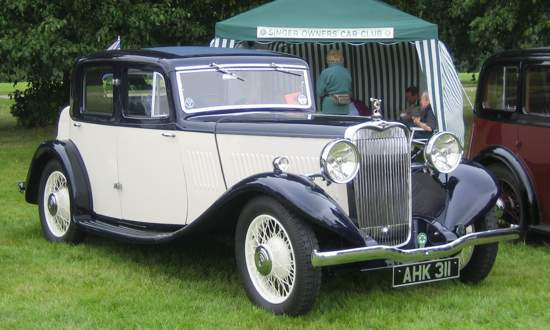 Large Singer saloon at Classic Car Show in Hertfordshire